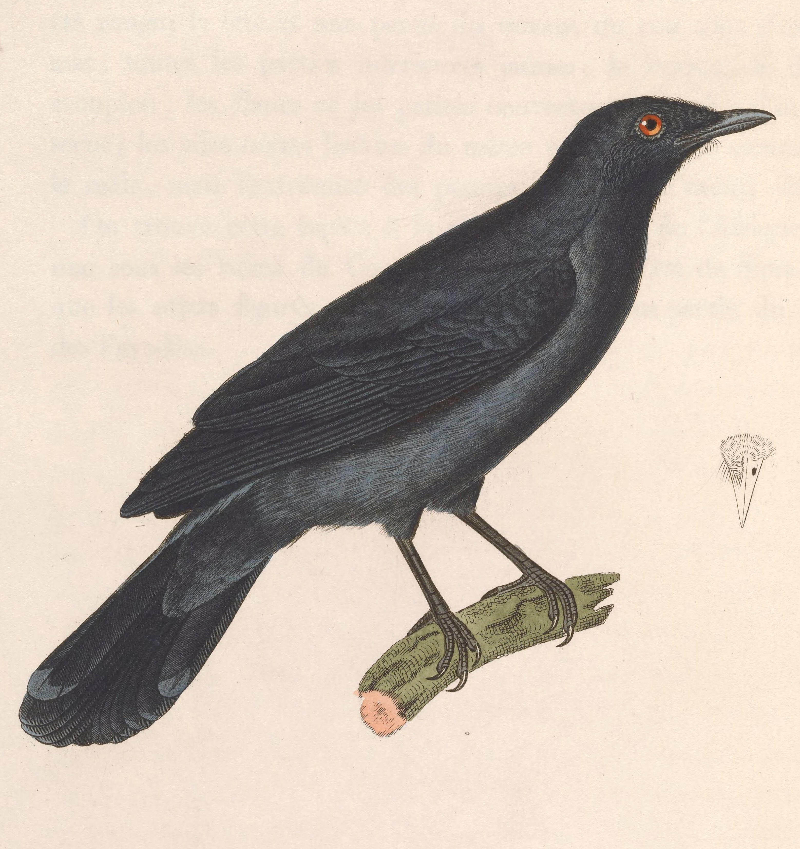 « Ceblephyris fimbriatus » = Coracina fimbriata (Lesser Cuckooshrike) - male